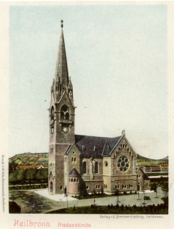 The Friedenskirche (Peace church) in Heilbronn, ca. 1900. Postcard